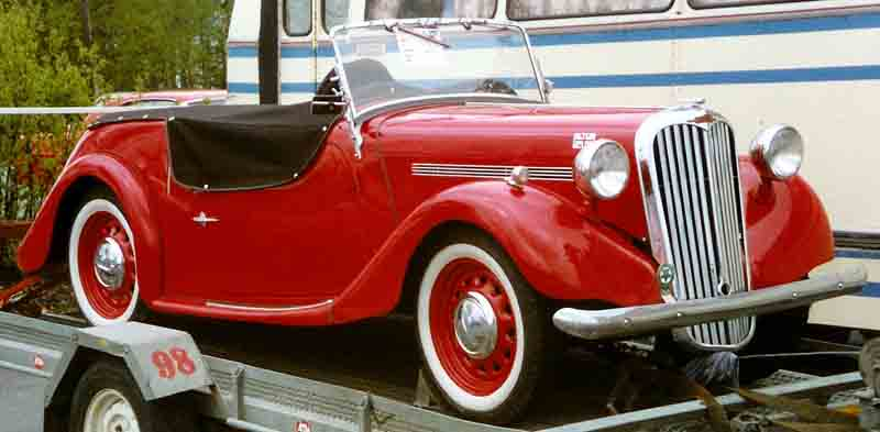 Singer Nine Roadster 1950 (4A)